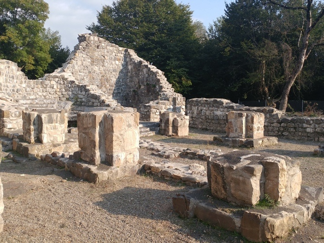 Dolochopi basilica. 4th-5th century ruins in Kakheti, Georgia